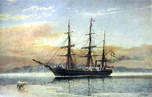 Swedish steamship S/S Vega, famous for the expedition of the Finnish-Swedish explorer Adolf Erik Nordenskiöld.Postcard